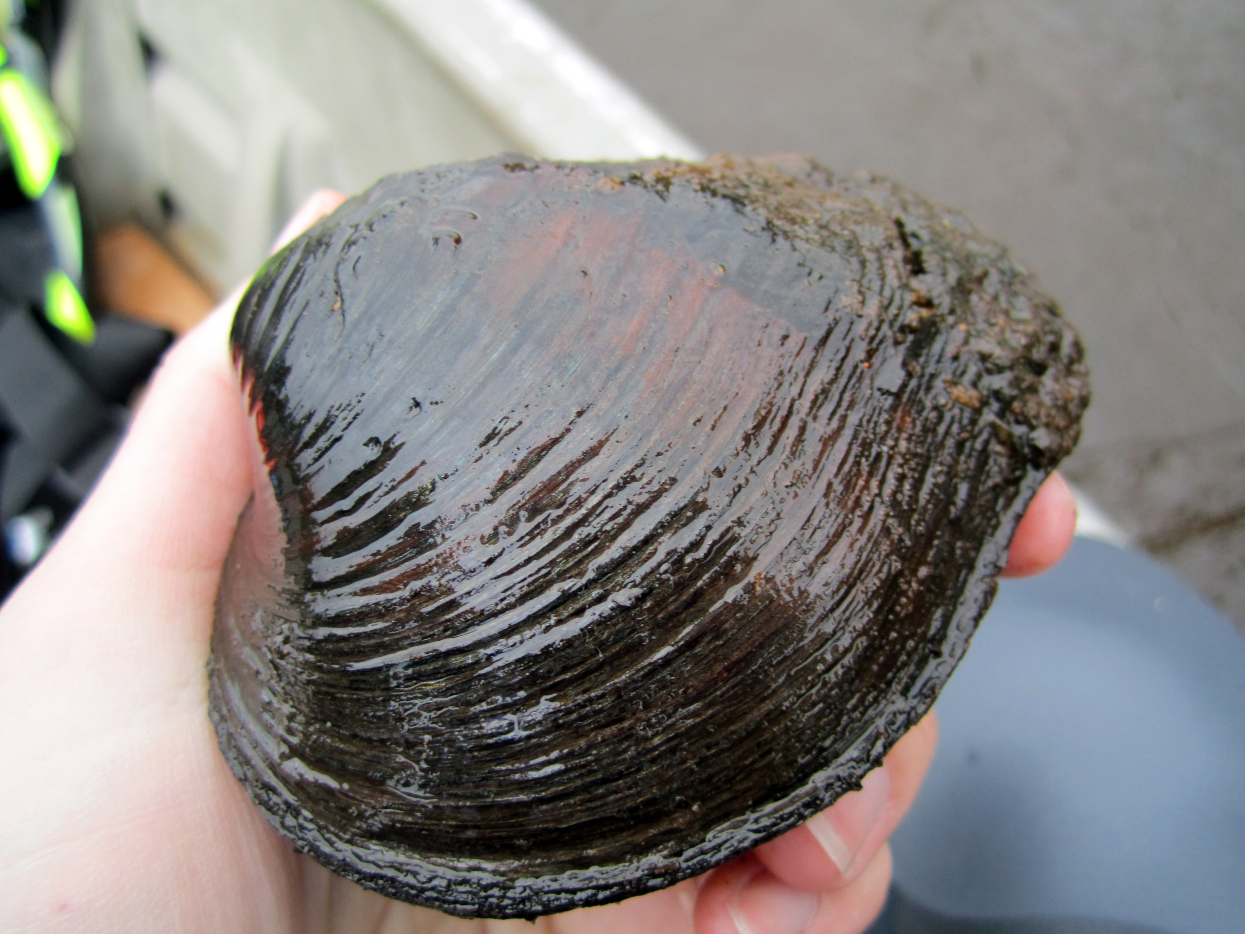 Wabash Pigtoe Mussel (Fusconaia flava)